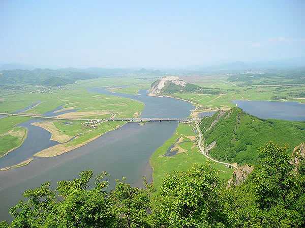 The Bridge crosses Partizanskaya River. View from top of Sestra Hill (Sopka Sestra) near Nakhodka